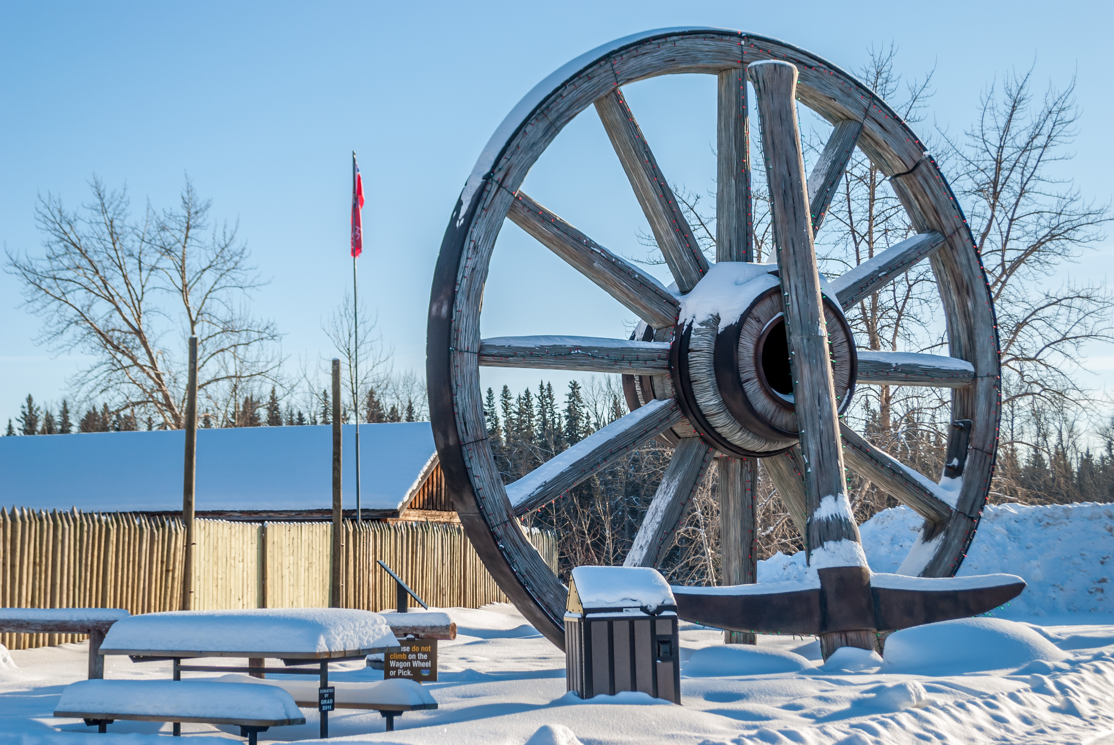 This is outside Fort Assiniboine's Museum. The 24' wagon wheel and pickaxe " celebrates the fact that Fort Assiniboine is the second oldest fort in Alberta. The fort was originally constructed as a Hudson Bay post in the early 1800s. Situated along the overland route from Edmonton to the Klondike Gold Rush, which took place through the years 1897 to 1902, the fort also supplied gold rush stampeders with goods necessary to make the long trek to the Klondike.